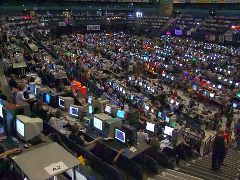 This is how the arena ice rink looks during the 2004 Assembly demo party.